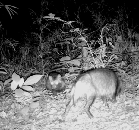 Infrared photograph of an adult raccoon dog with pup.